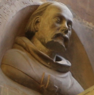 Peter Parler's bust at triforium gallery in St. Vitus cathedral in Prague